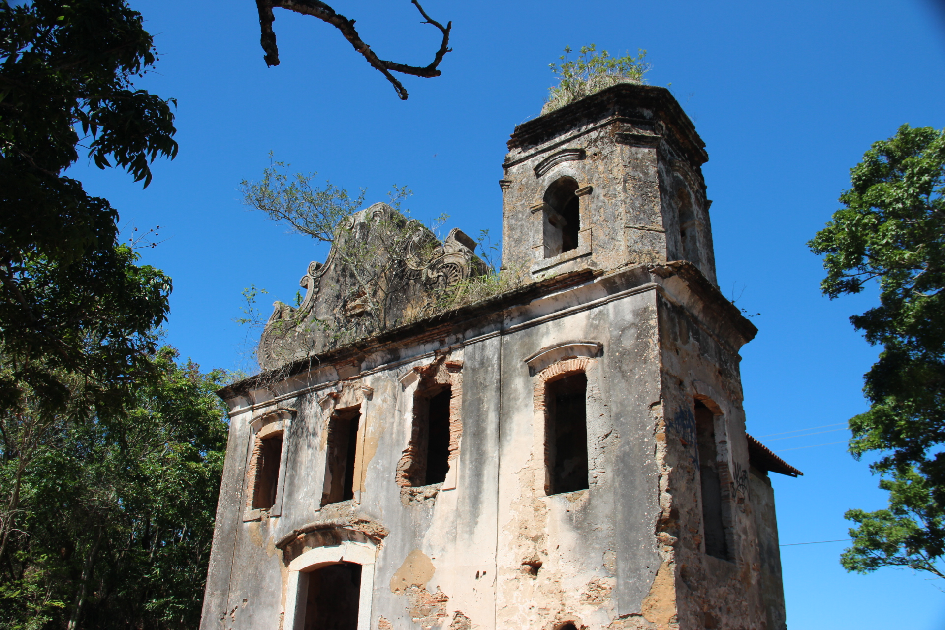 Ruinas da Igreja de Belém